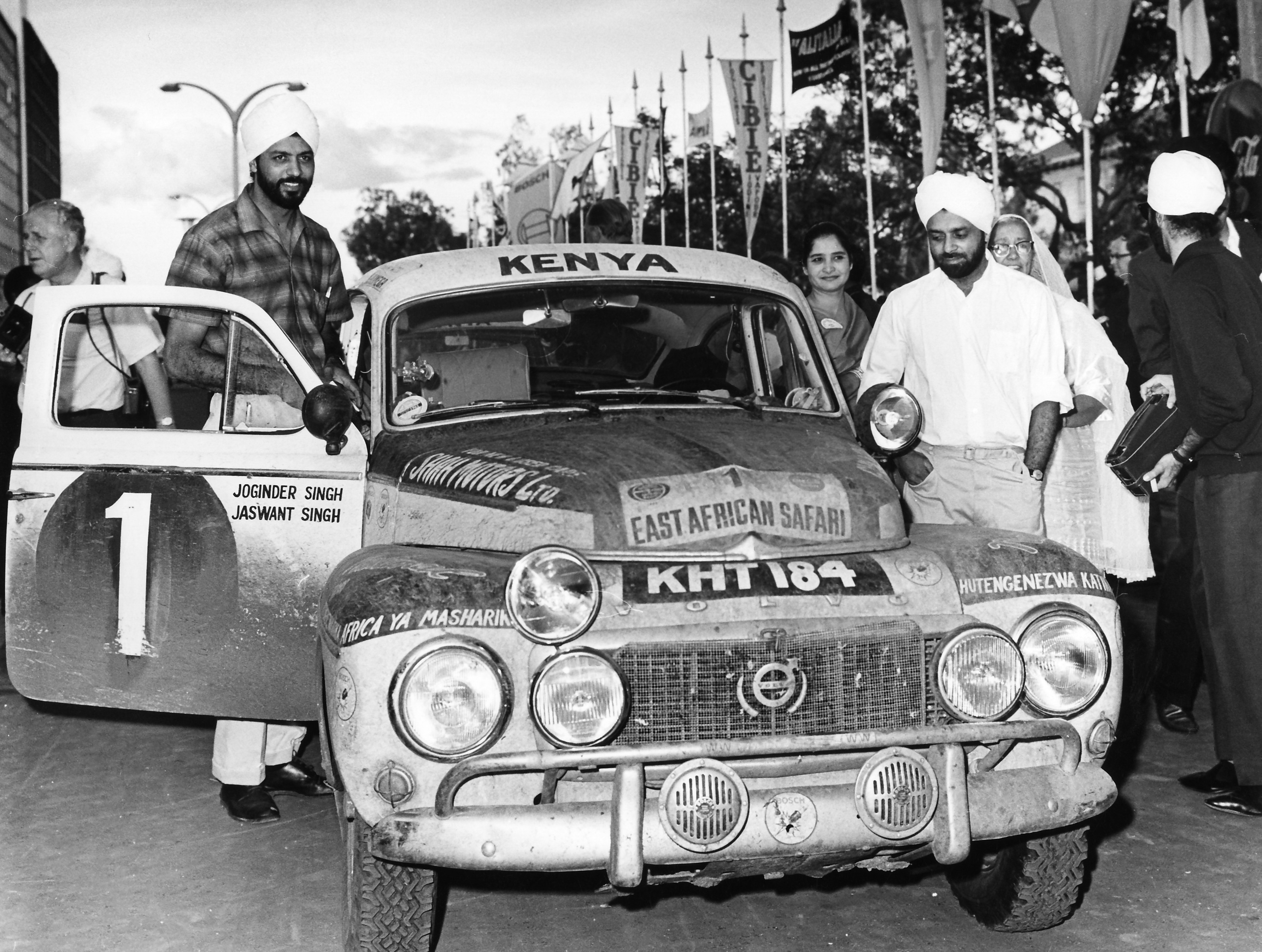 Joginder Singh, his brother Jaswant and their Volvo PV 544 claiming first place at the East African Safari Rally in 1965.